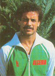 Belloumi, lakhdar 1986